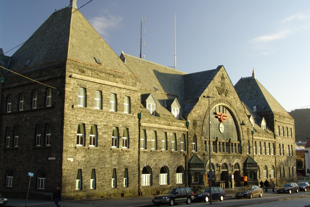 The train station in Bergen. Whereas most train stations has a railway passing through them, this one is actually the end of the line.